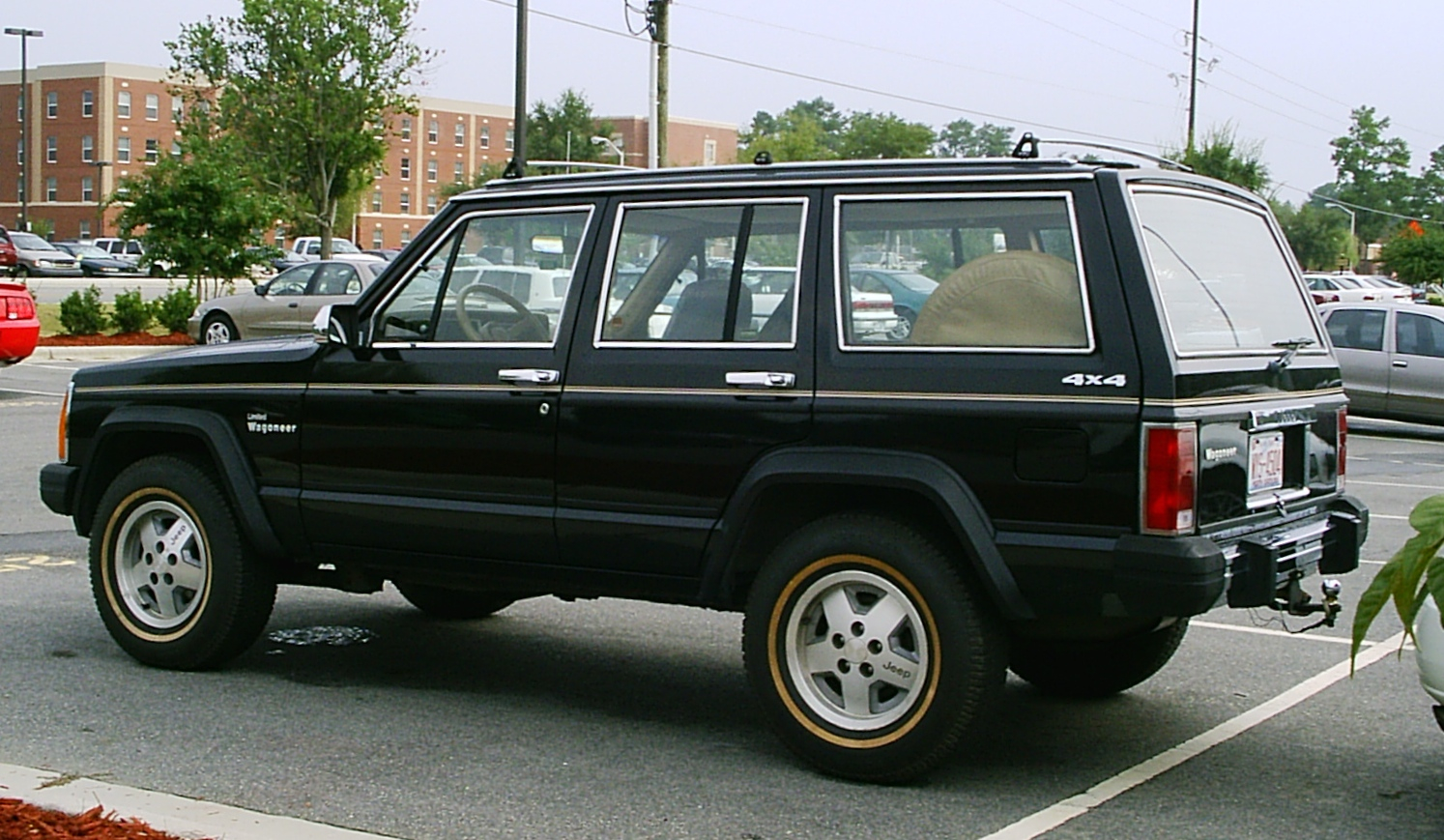 1986-1990 Jeep (XJ) Wagoneer Limited black - left side view